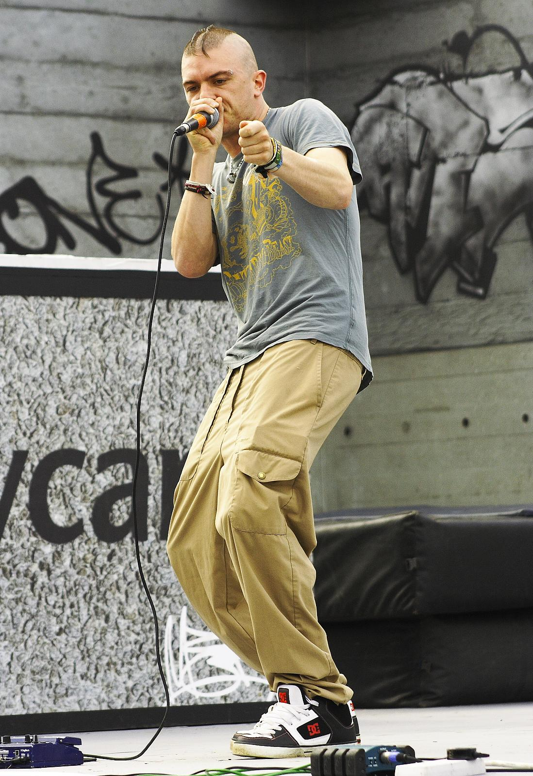 Beatbox artist 'The Pete-Box' at the Mayor's Thames Festival 2008. Uploaded per request at Wikipedia:Images for upload.